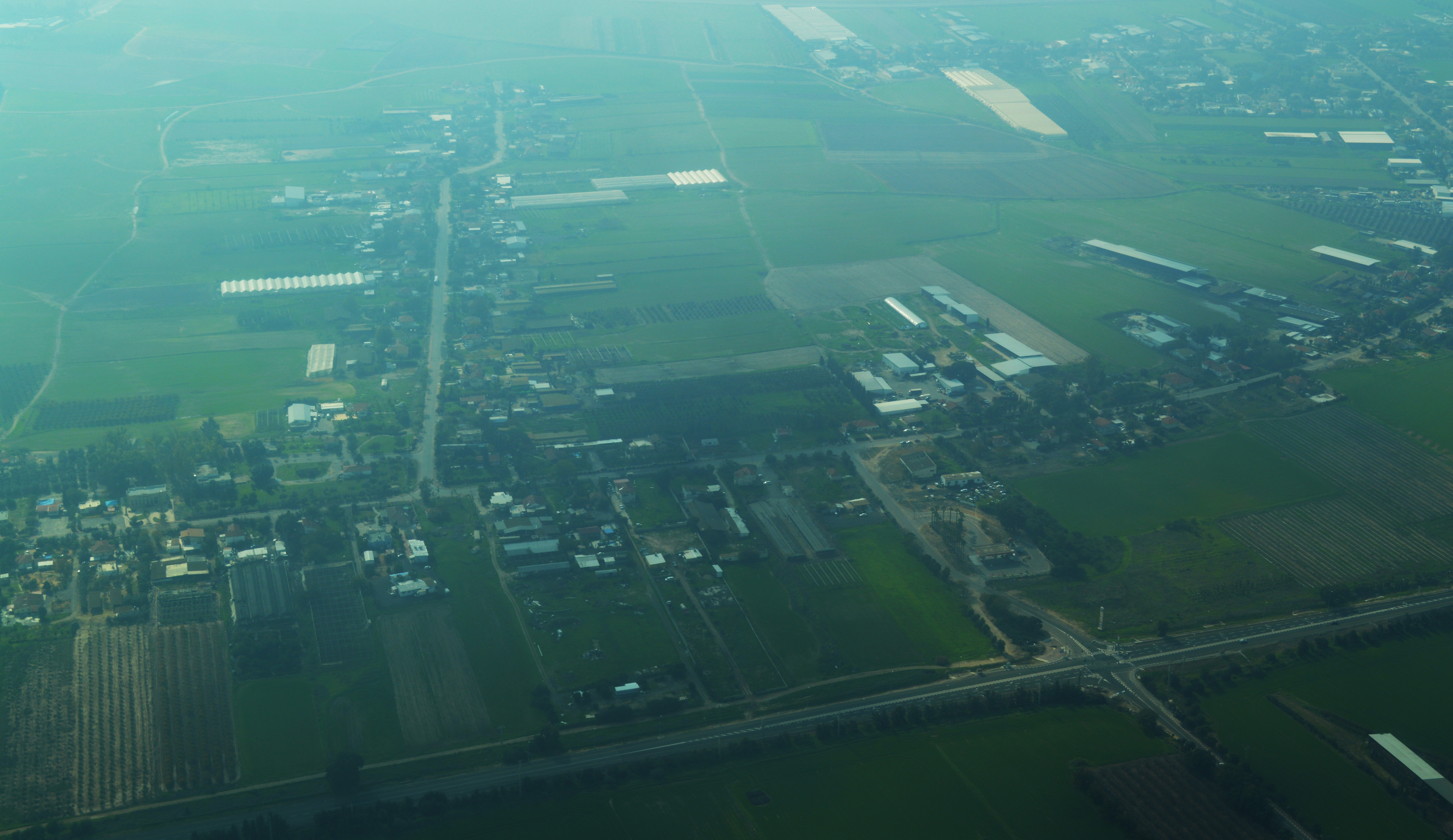 Hodaya Aerial View